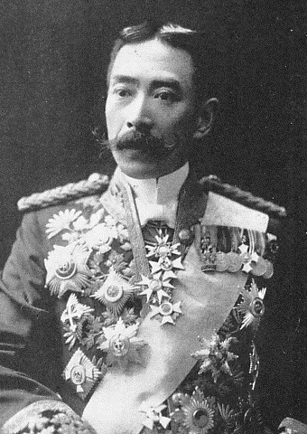 Hirokuni Ito